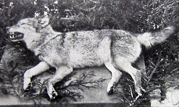 After being captured. last wolf in Germany. Shot 1904 in Sabrodt / Oberlausitz